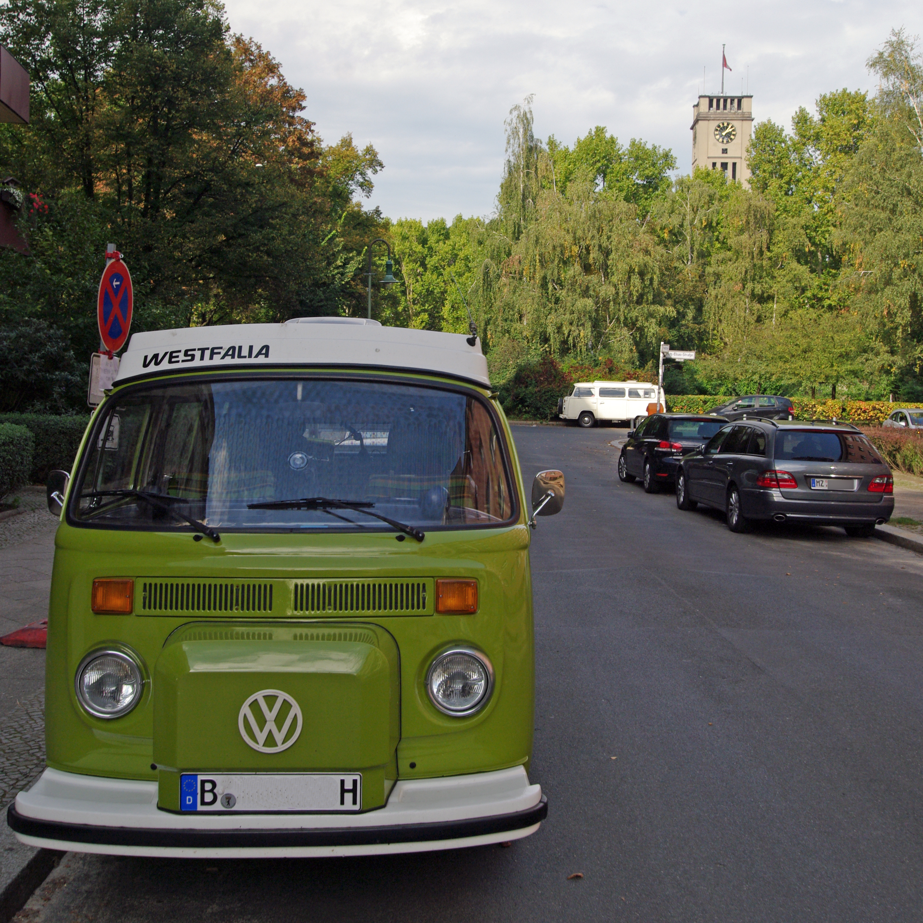 Green Volkswagen van standing in the Hewaldstrasse street, Berlin-Schöneberg in front of the Rudolph-Wilde park. In the background the tower of Schöneberg town hall.